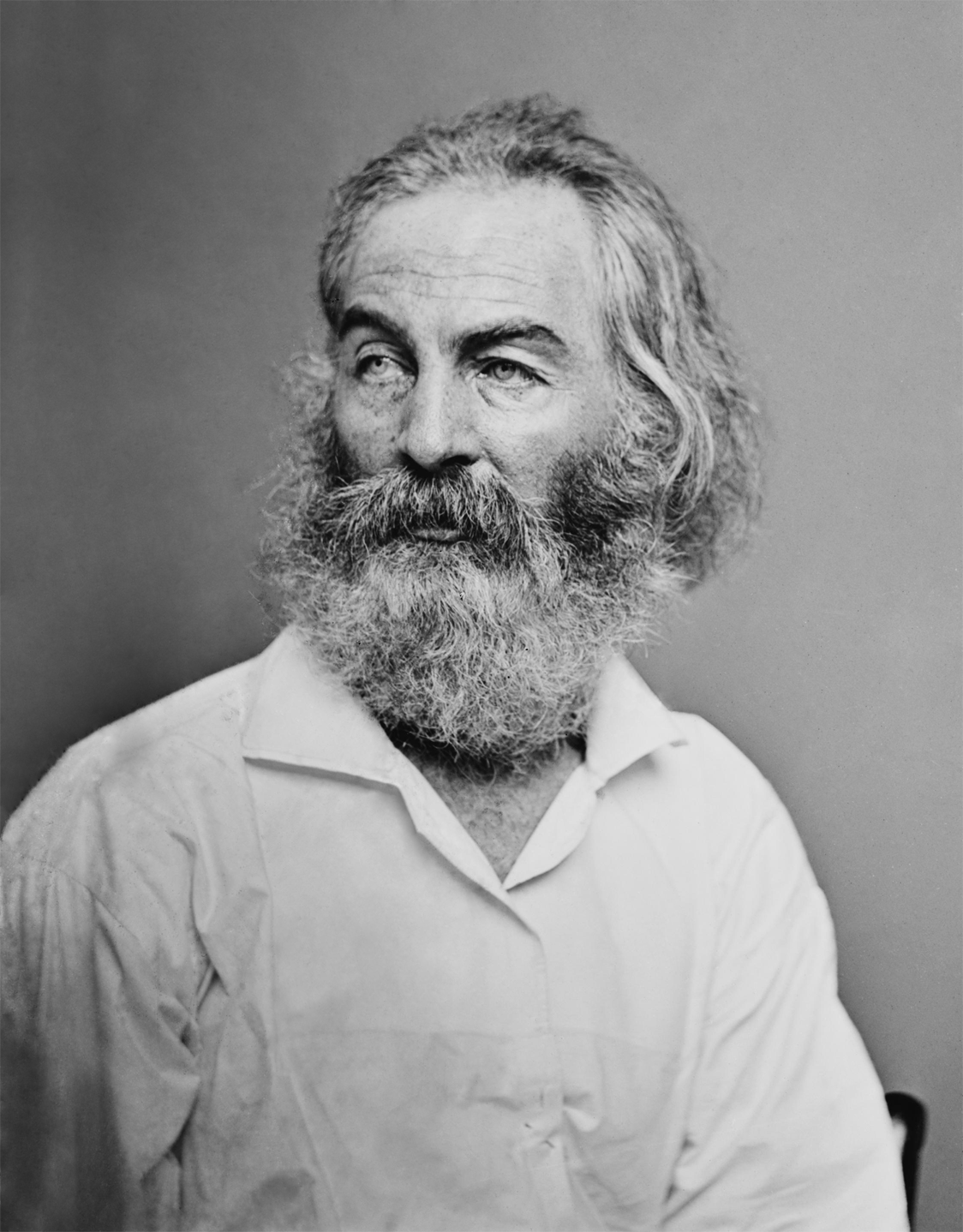 Walt Whitman. Library of Congress description: "Walt Whitman".